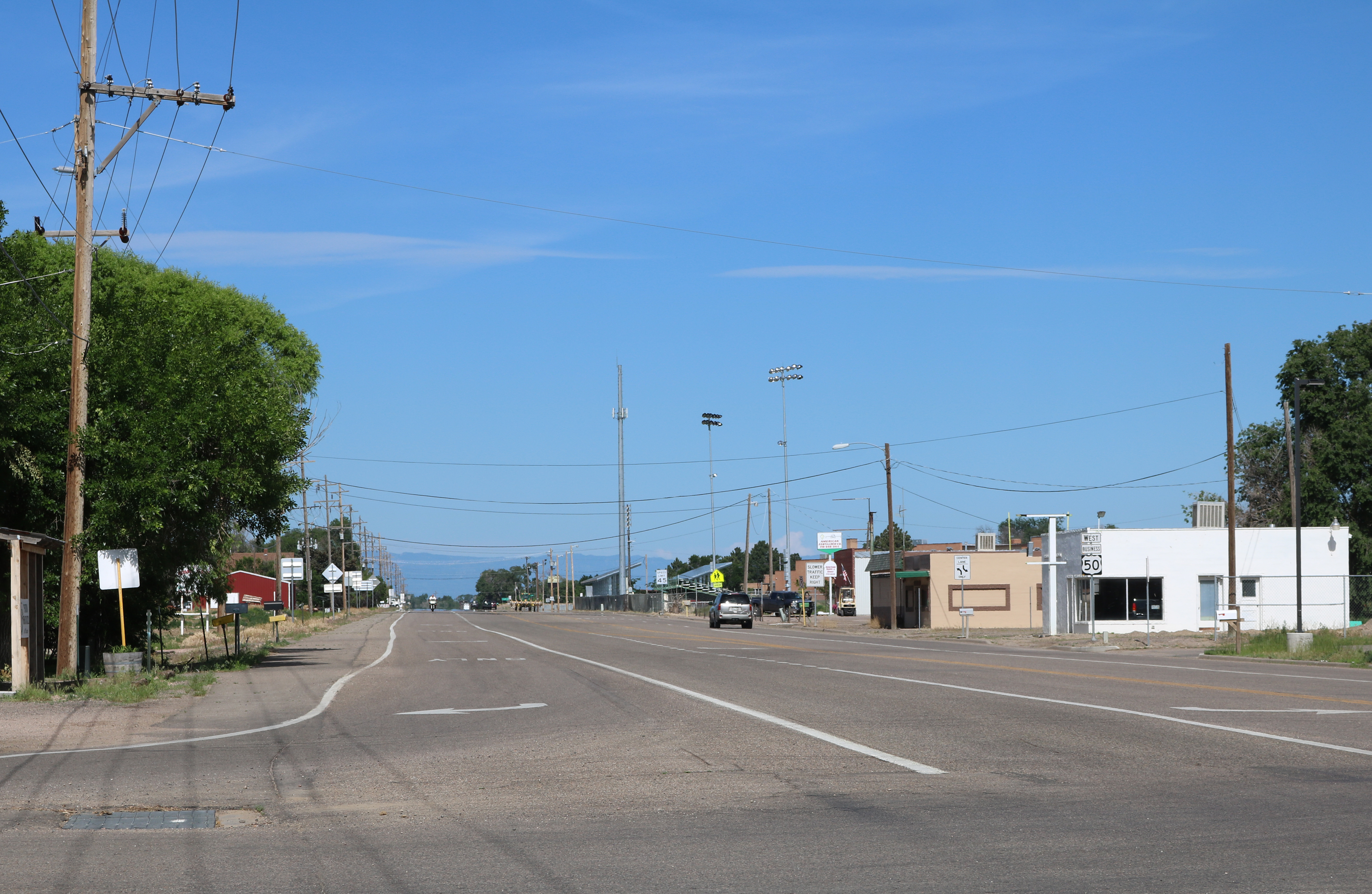 A view of Vineland, Colorado in Pueblo County. The view is to the west along Santa Fe Drive, from 36 Lane.